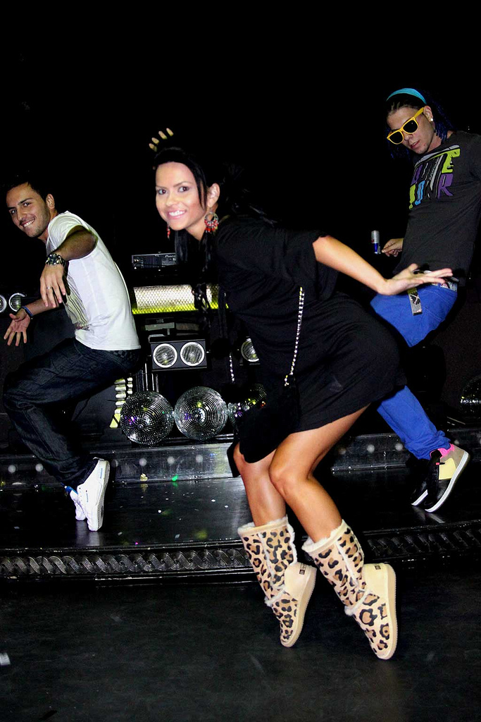 Inna during a sound check in the Soho Club, Moscow